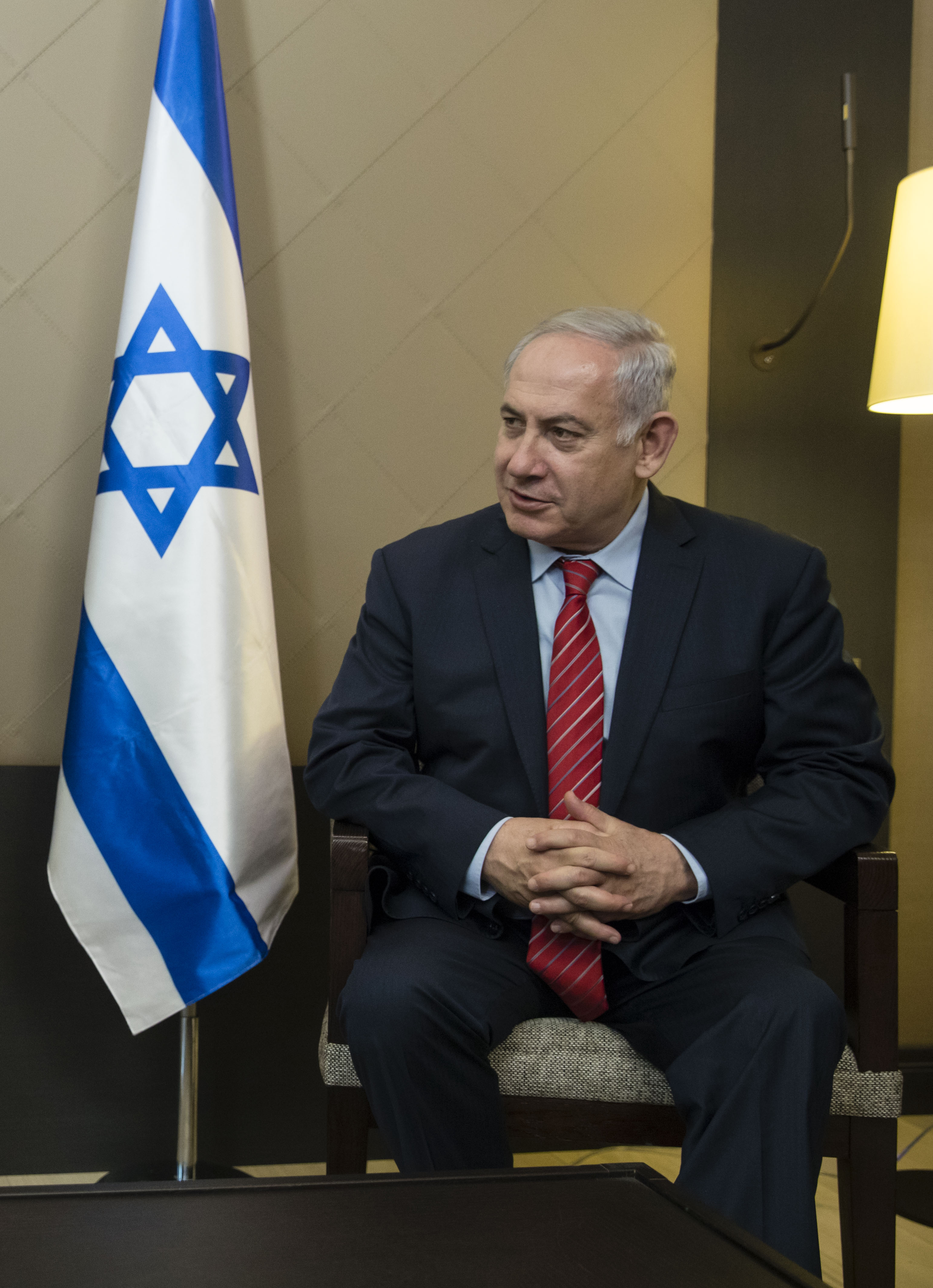 President of Ukraine held a meeting with the Prime Minister of Israel